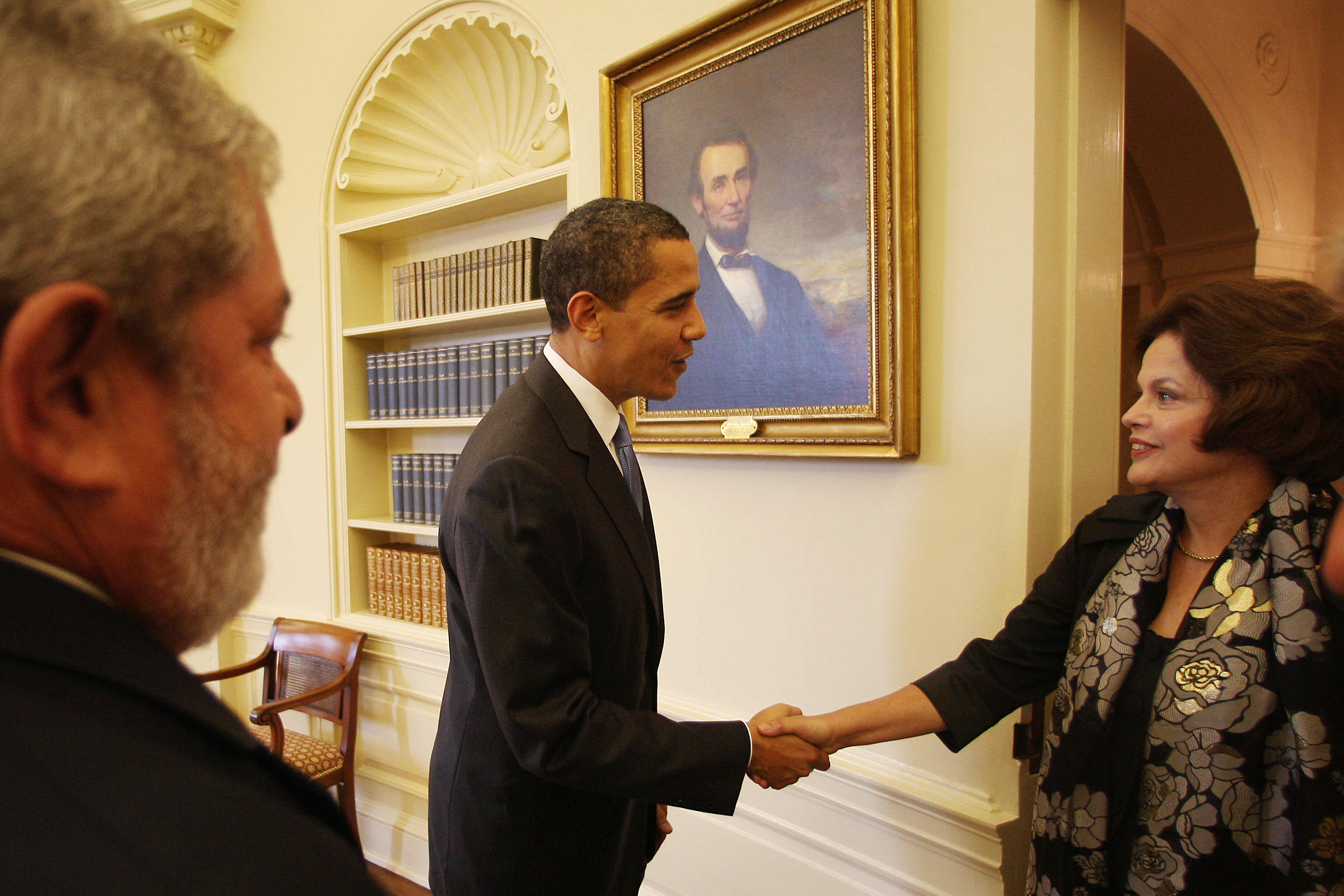 President Lula looks on as the President of the United States, Barack Obama, greets the chief minister of the Casa Civil, Dilma Rousseff, during a meeting in the White House.